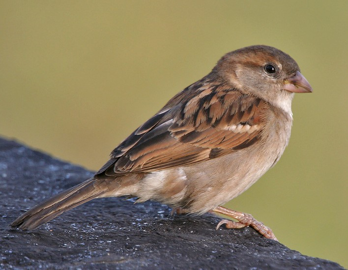 House Sparrow (Passer domesticus) in Kolkata, West Bengal, India.